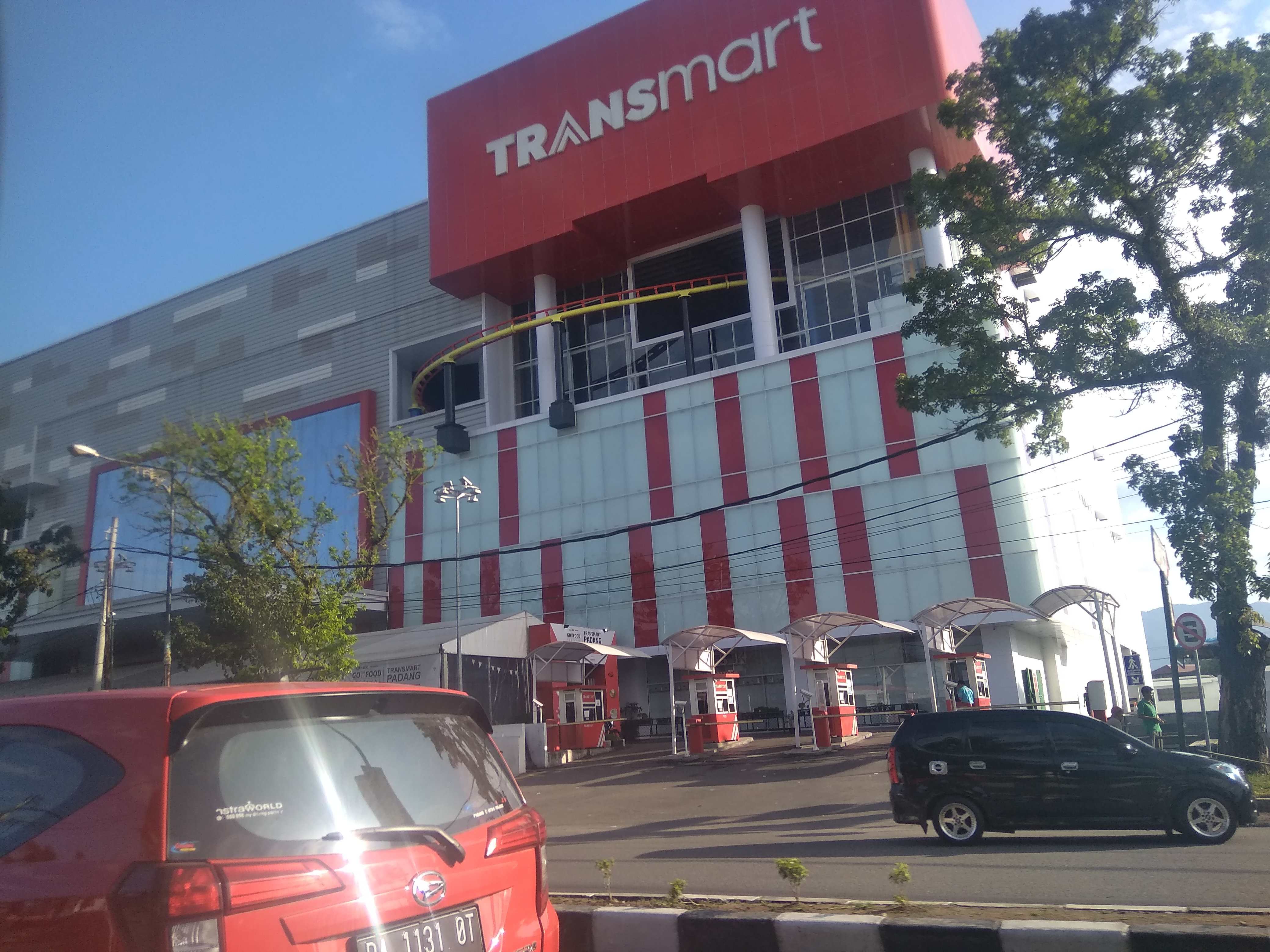 Transmart Padang, a shopping center located on Khatib Sulaiman street, Padang City, West Sumatra, Indonesia.